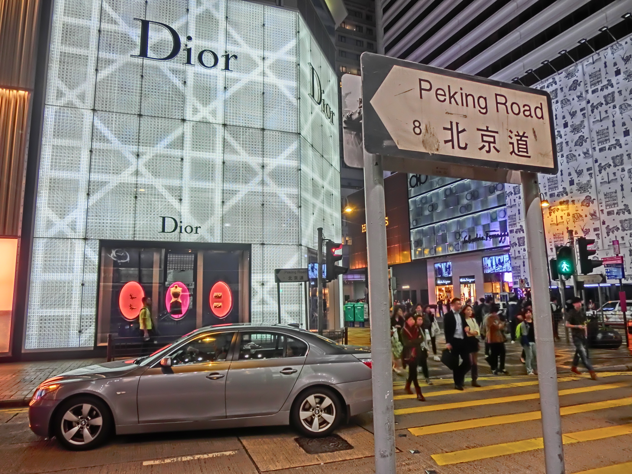 One Peking, 北京道1號, Peking Road, Canton Road, Tsim Sha Tsui, Hong Kong